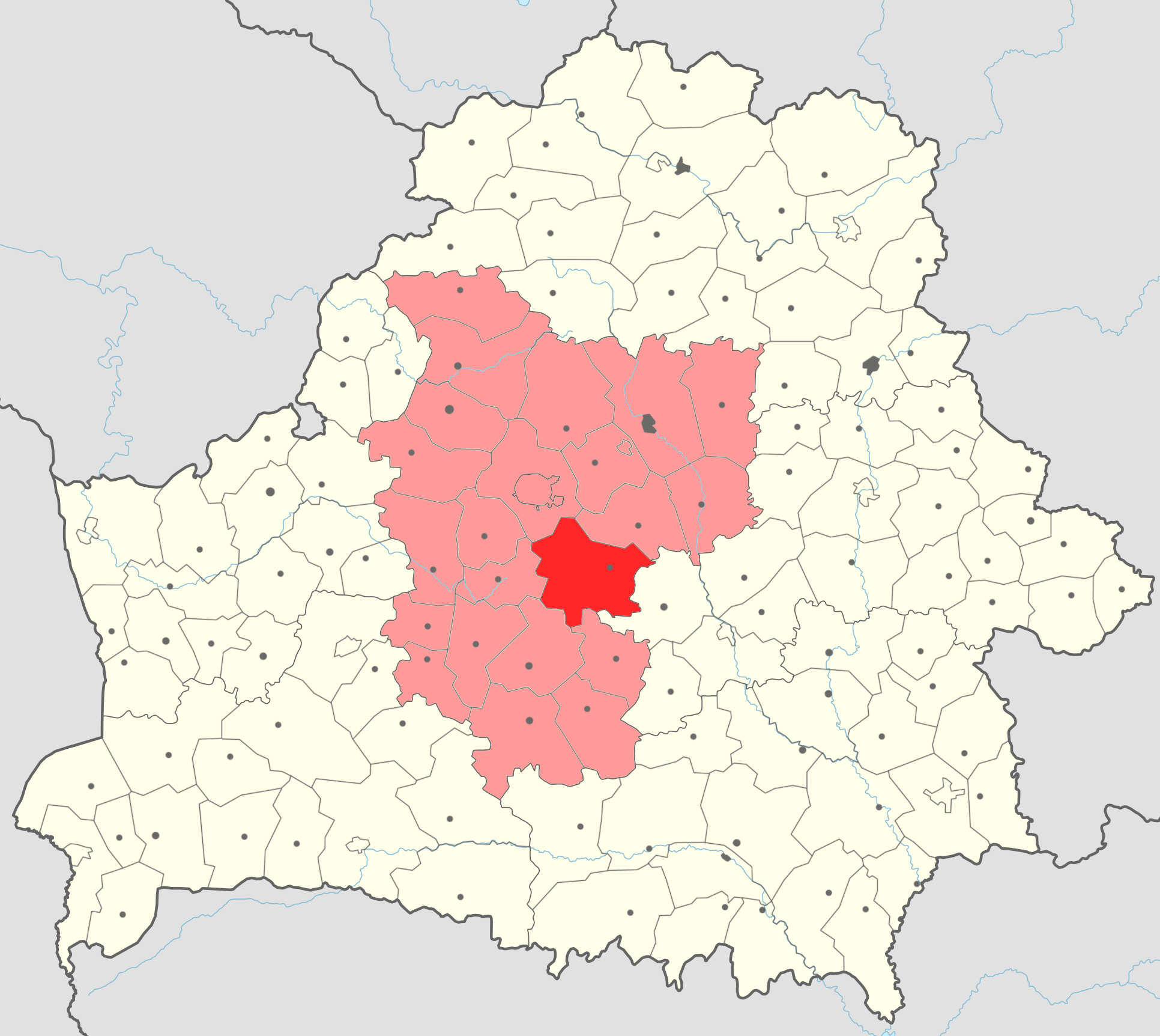 Map of Puchavicki rayon (in red) with Minsk voblast' (in light red) on the map of Belarus.